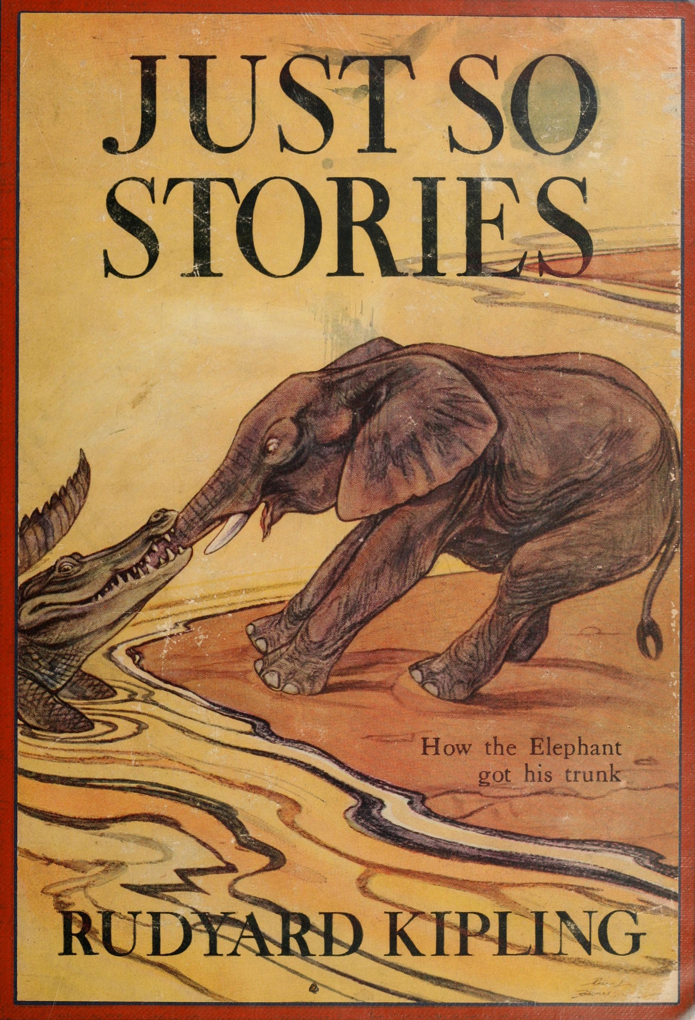 Illustration from a collection of short stories Just so stories (c1912) Garden City, NY : Garden City Pub. Co.